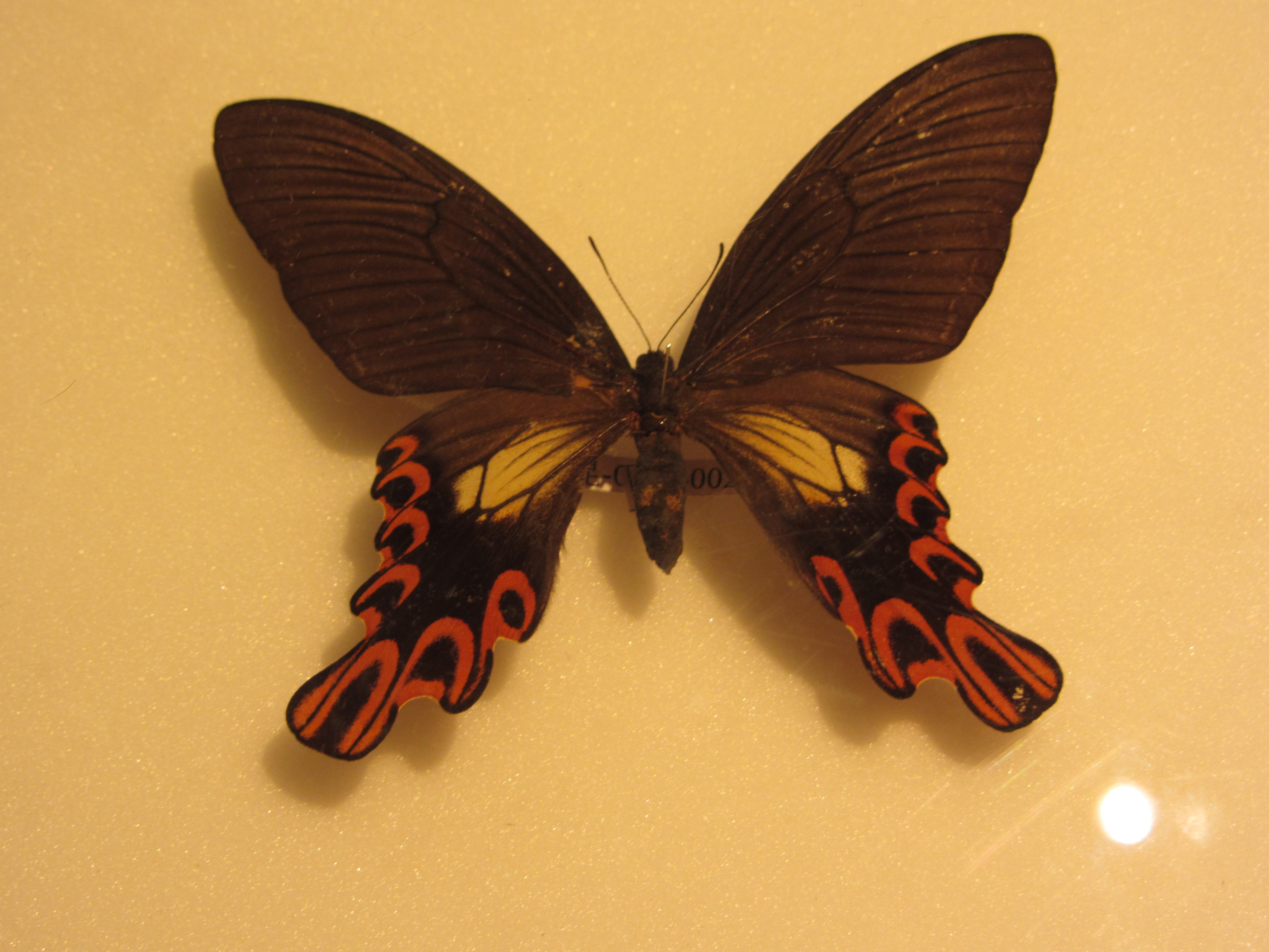 Broad-tailed Swallowtail Butterfly, Agehana maraho, endemic in Taiwan